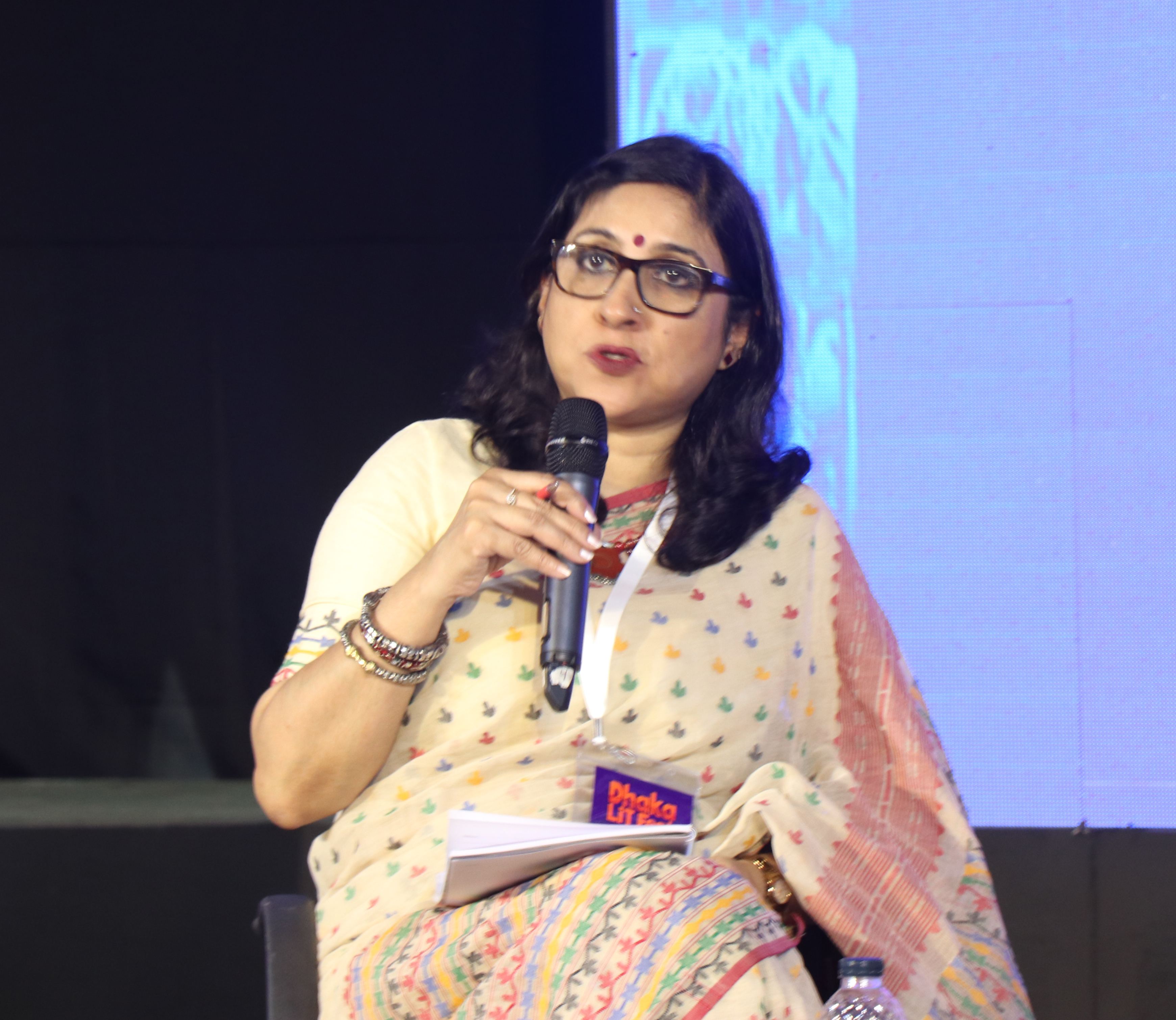 Sadeka Halim talk a discussion program at Dhaka Lit Fest 2017